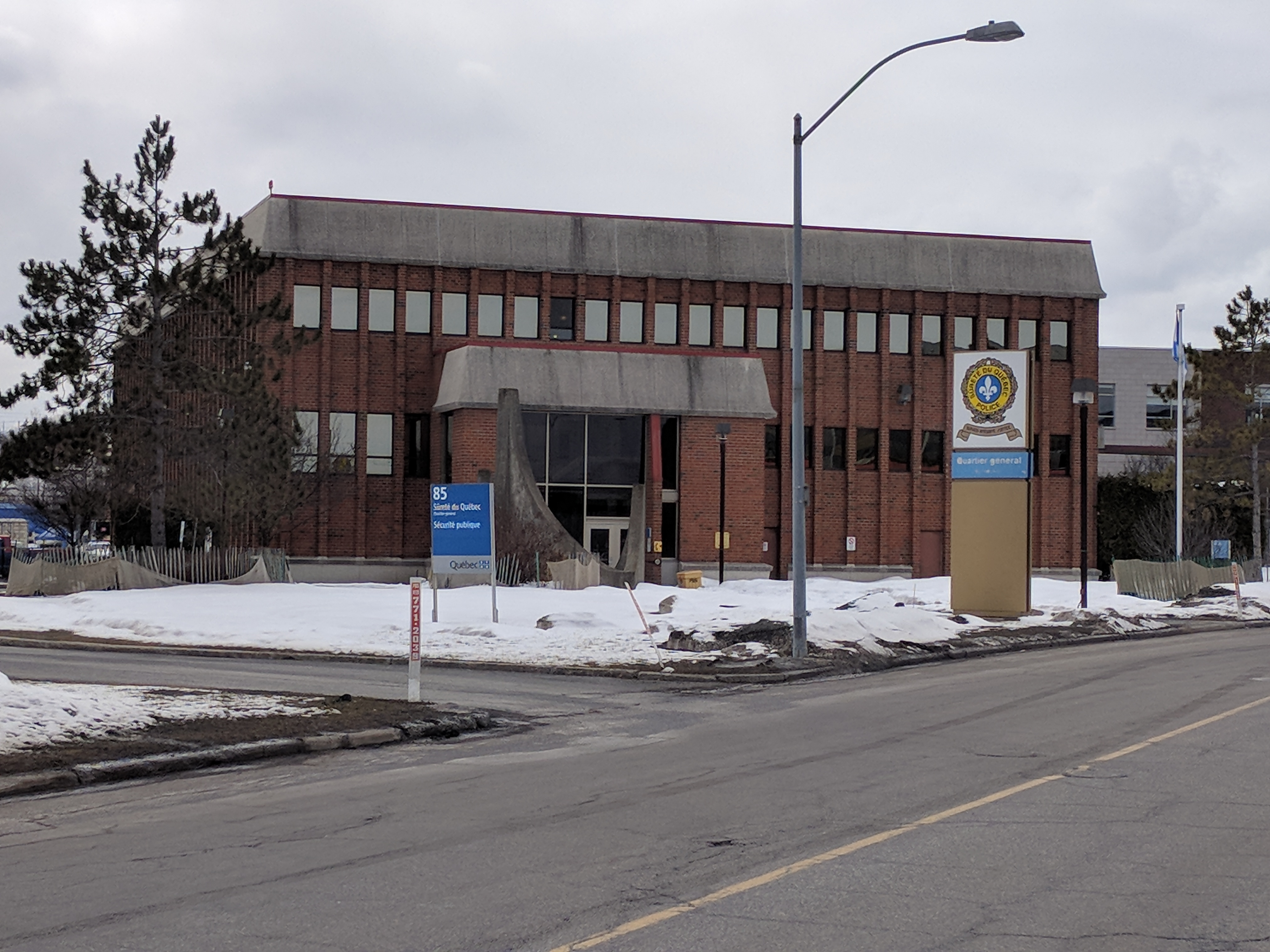 Headquarter of Sureté du Québec in Gatineau